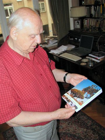 Janusz Krasiński (Janusz Krasny-Krasiński) (b. July 5, 1928 in Warsaw, Poland) - Polish prose-writer, dramaturgist, essayist and publicist. He lives in Warsaw, Poland